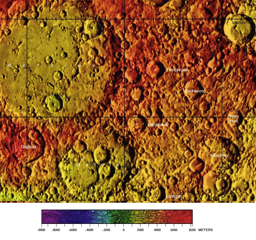 Part of the USGS far side lunar chart.